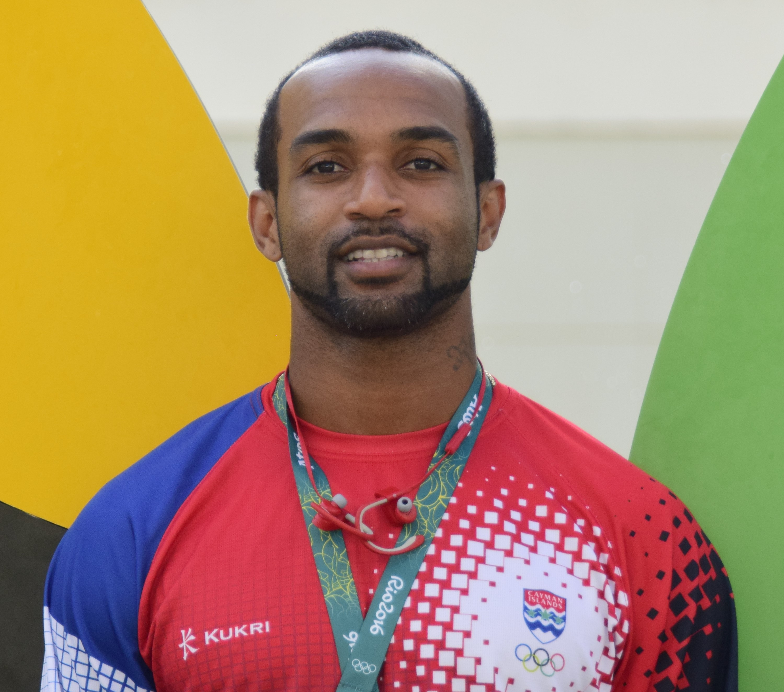 Commonwealth Games Photo